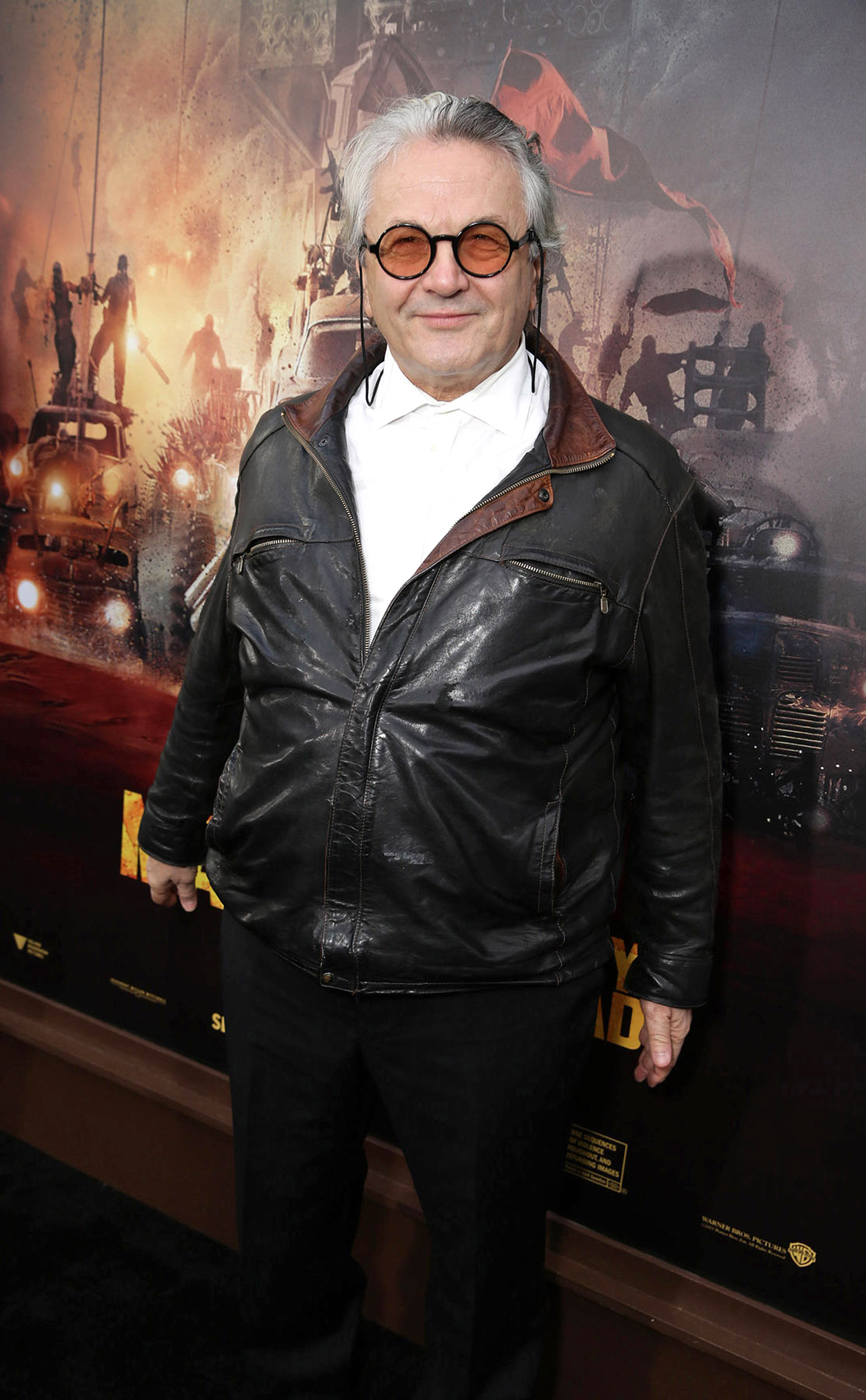 George Miller at the Warner Bros. premiere of Mad Max: Fury Road in Los Angeles